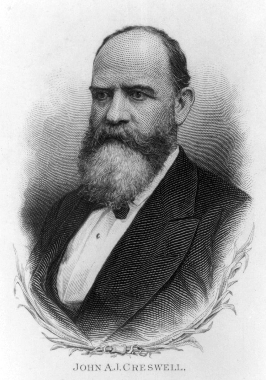 John Creswell, Postmaster General of the United States